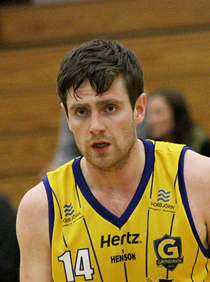 Grindavík's Ólafur Ólafsson in a game against Haukar on 8 January 2015.